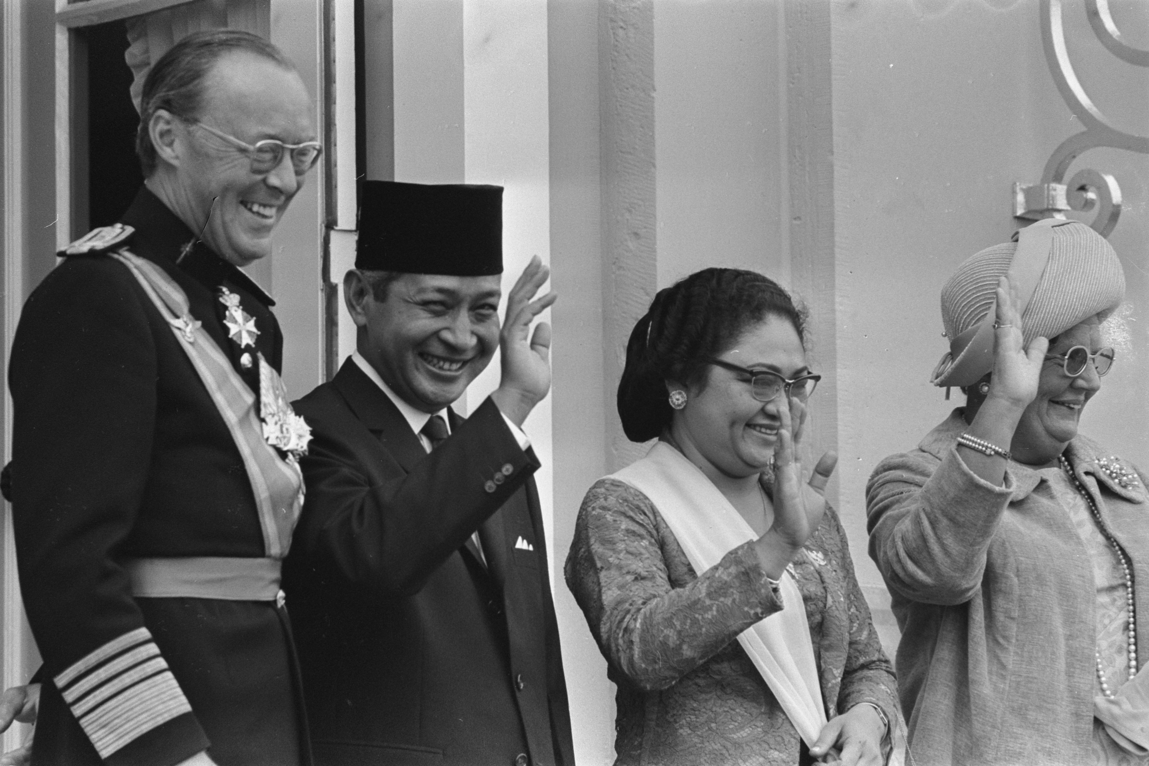 Prince Bernhard, Suharto, Siti Hartinah (Tien Suharto), and Queen Juliana waving during a state visit from Suharto in the Netherlands